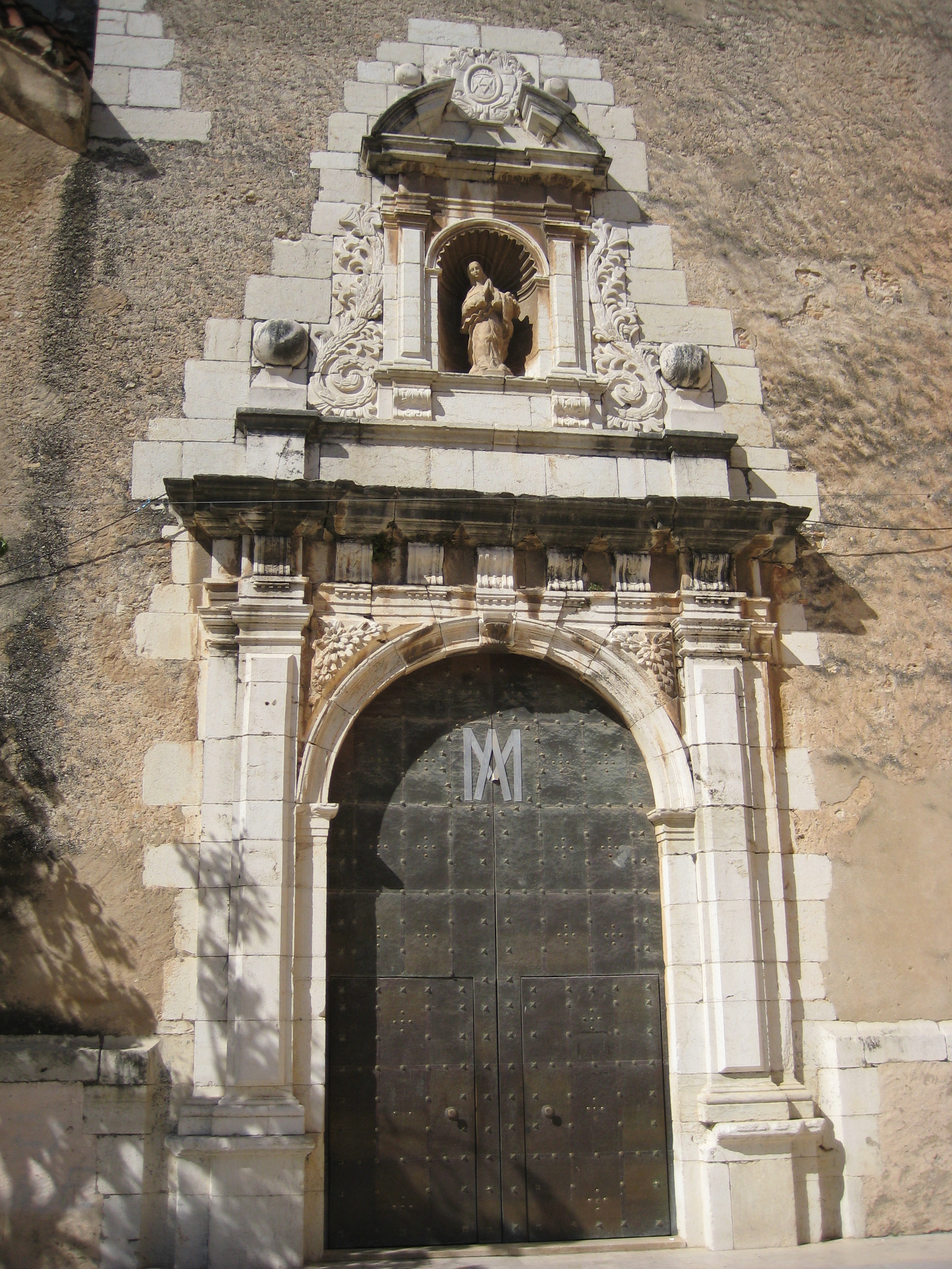 Side door of St. Bartolomew's Church, Benicarló (Spain)